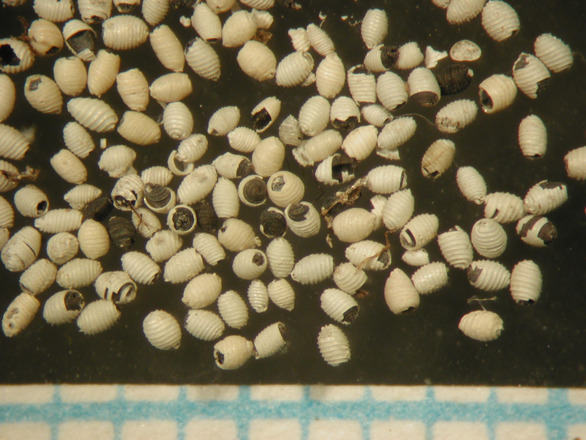 Characeae oogones from Holocene freshwater tufa deposit at Ronde Hoep south of Amsterdam